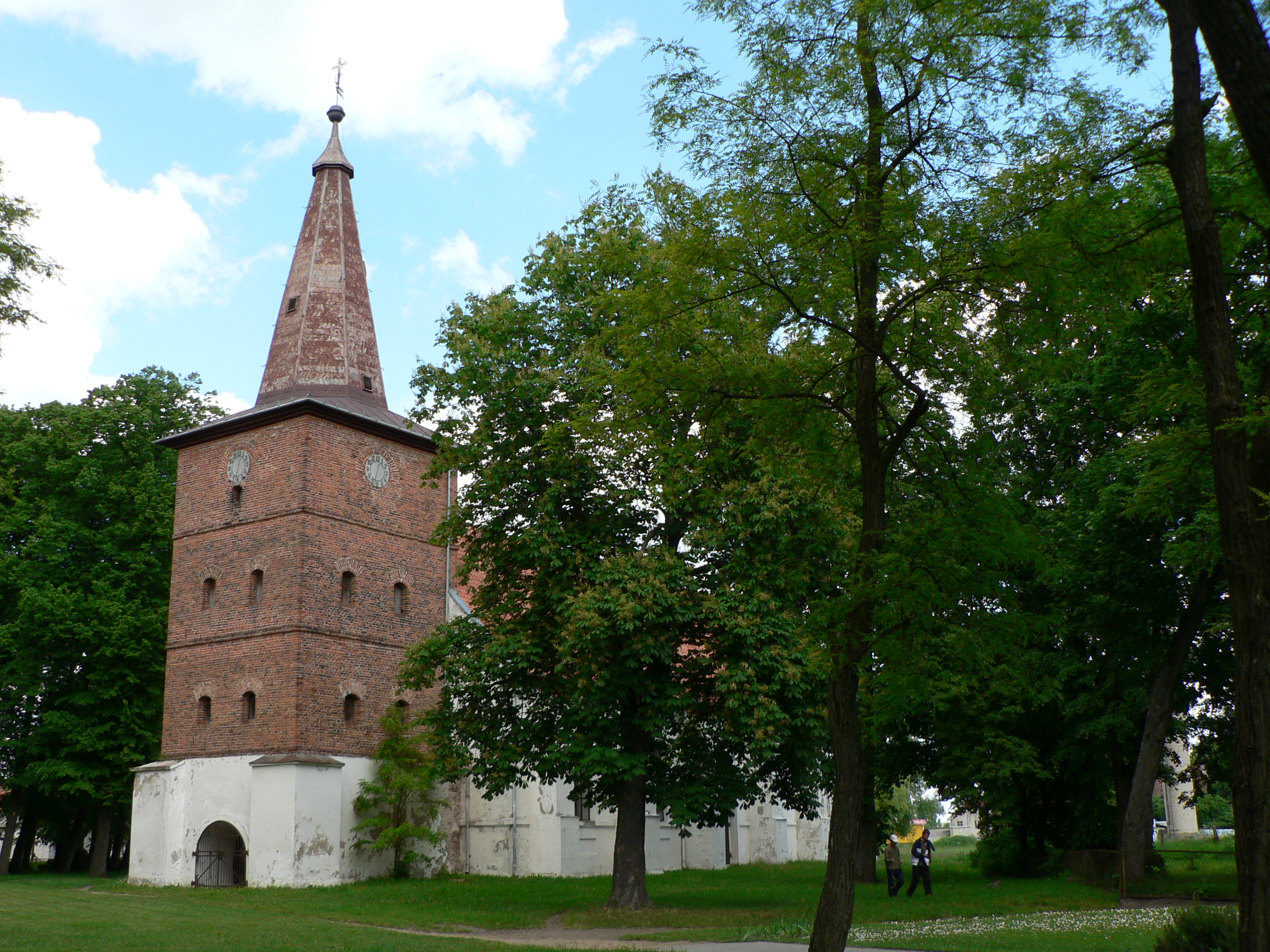 Church in Rusne, Lithuania. Author: Wojsyl, 2005